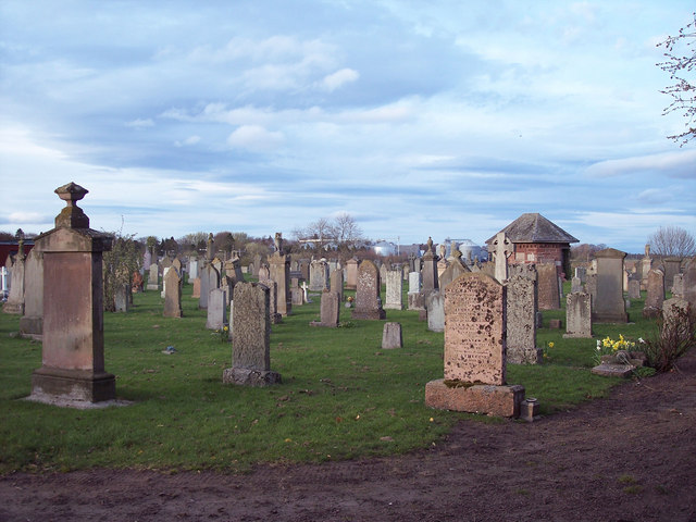 Gravestones and watch house at the Abbey Church.